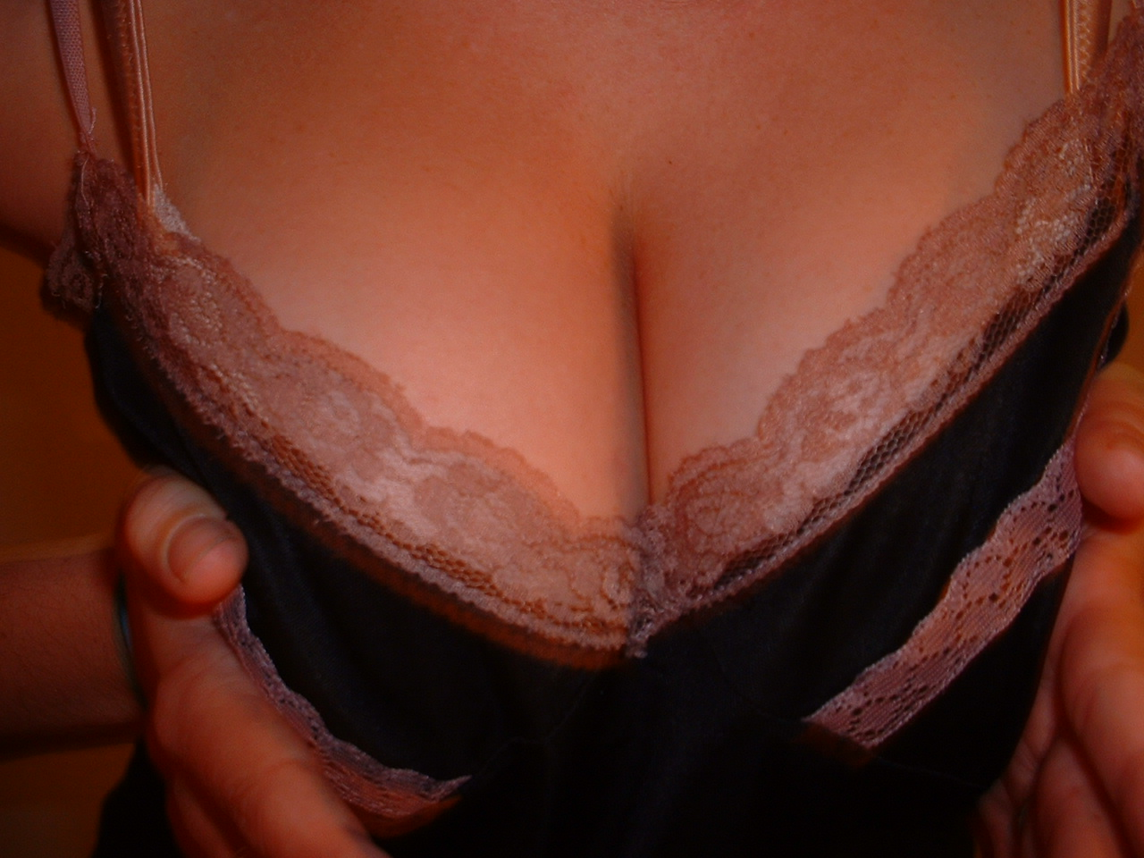 Woman's cleavage